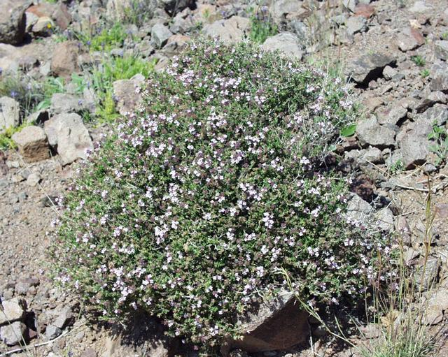 (en) Garden Thyme (Thymus vulgaris), in France (Bouche du Rhône), a photography originating of the internet site The accord of the autor, H. Brisse, is here. (fr) Thym commun (Thymus vulgaris), en France (Bouche du Rhône), une photographie issue du site internet L'accord de l'auteur, H. Brisse, se situe ici. (de)Echter Thymian, (it)Timo maggiore, (es)Tomillo común